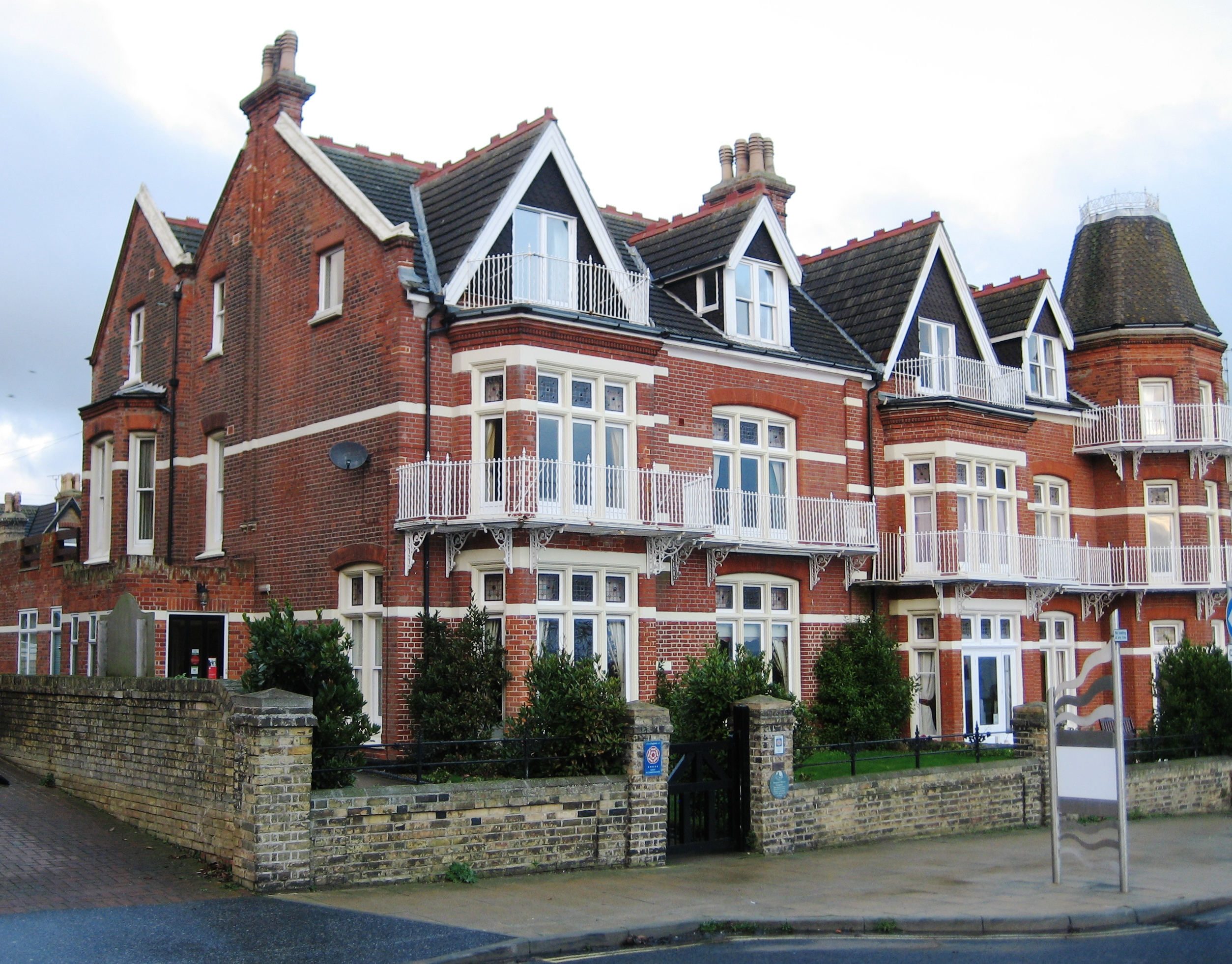 Britten House, on Cliff Road, Lowestoft, was the birthplace of the composer Benjamin Britten. The house is now a Bed & Breakfast.